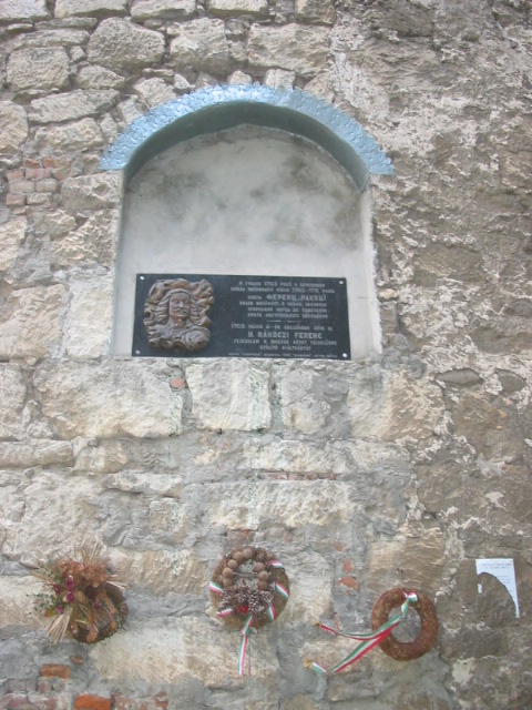 Memorial plaque to Ferenc Rakoczi at Berezhany castle, western Ukraine.